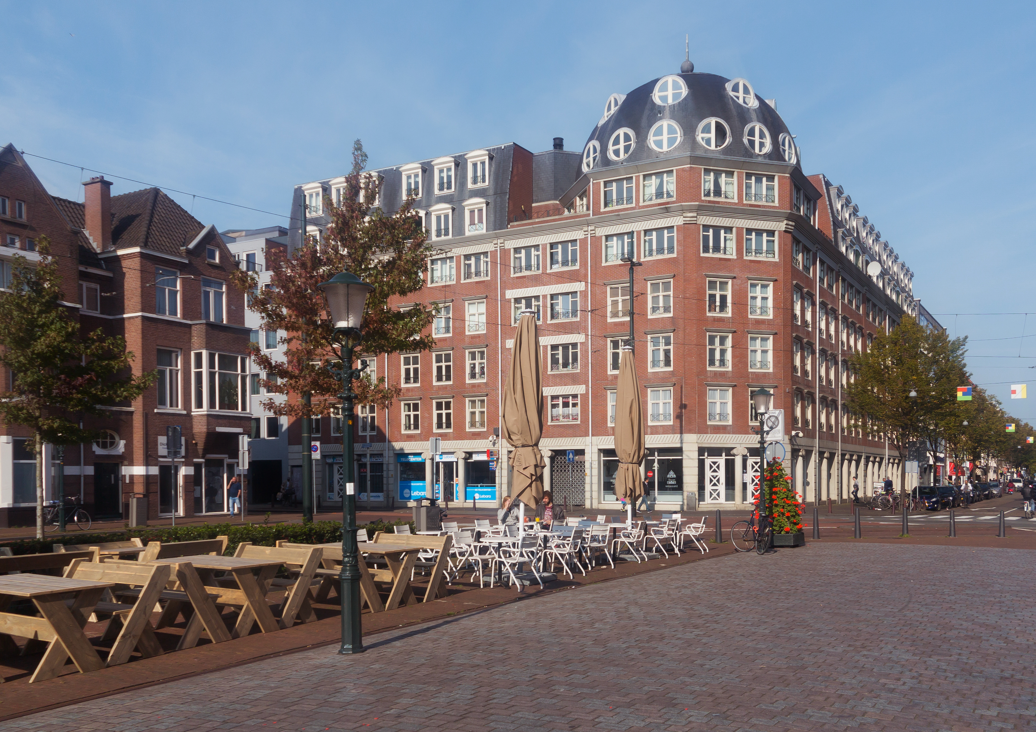 The Hague, street view : Hoefkade-Stationsweg-Oranjelaan